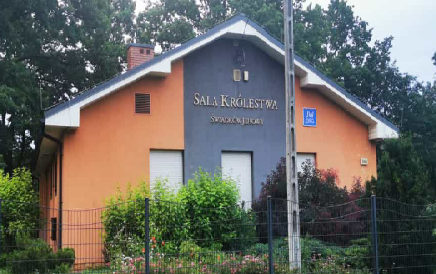 Kingdom Hall in Milanówek. Poland